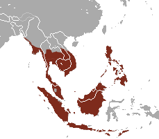 Crab-eating Macaque (Macaca fascicularis) range